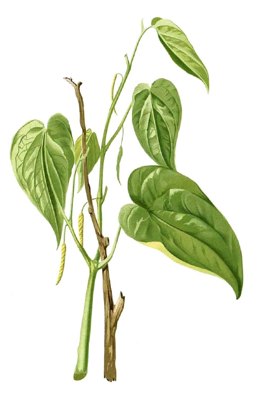 Plate from book